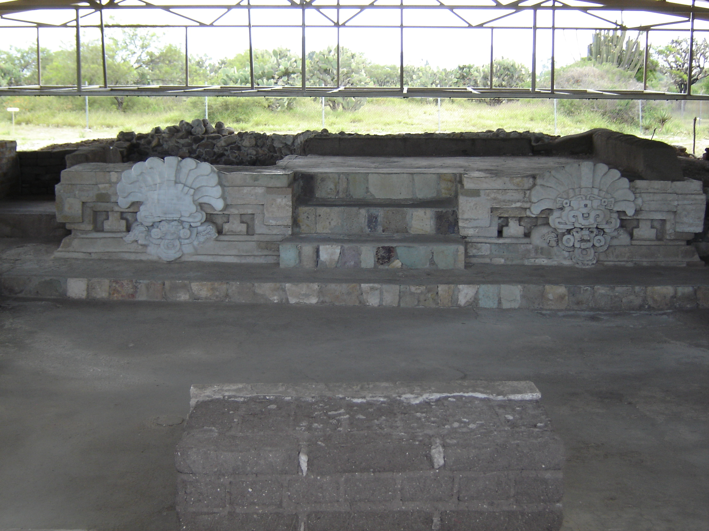 it is a picture from the erqueological zone of Lambityeco, the god cosijo